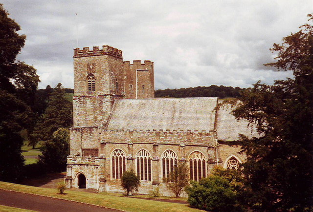 St German's Priory, Cornwall